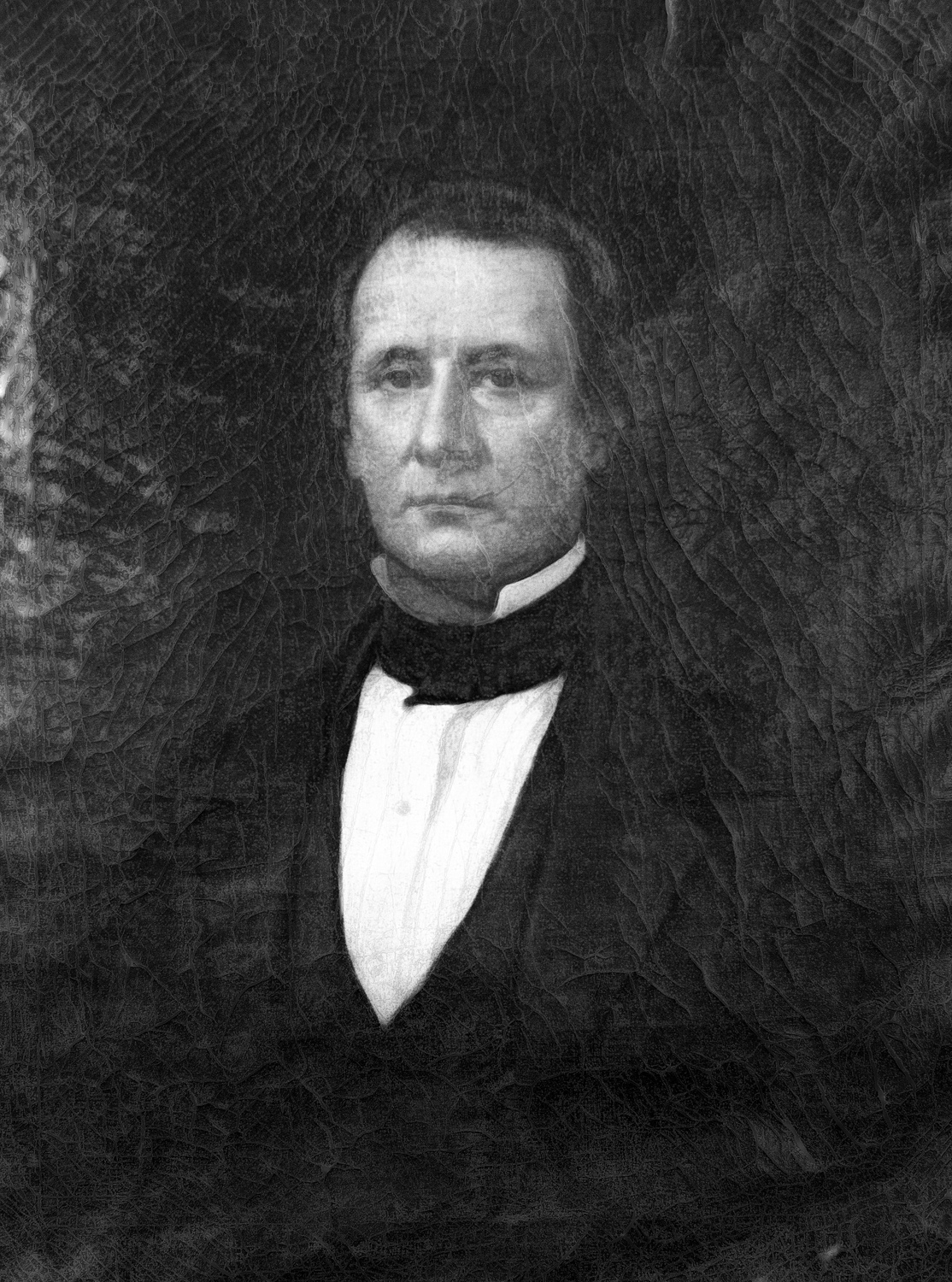 Josiah Collins III (1808-1863) of Somerset Place. From General Negative Collection, State Archives of North Carolina.